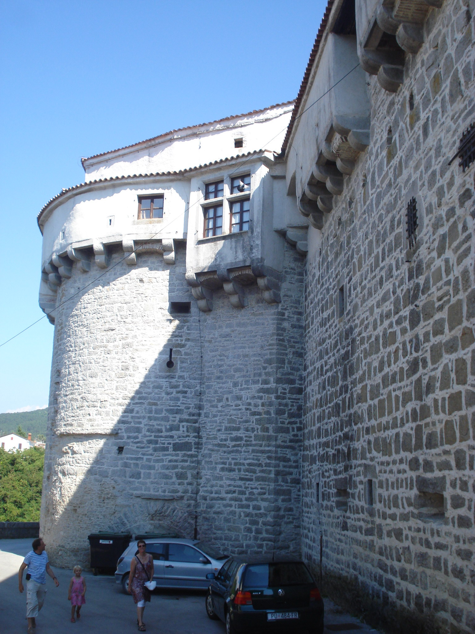 Pazin Castle, Istria County, western Croatia - northwestern view